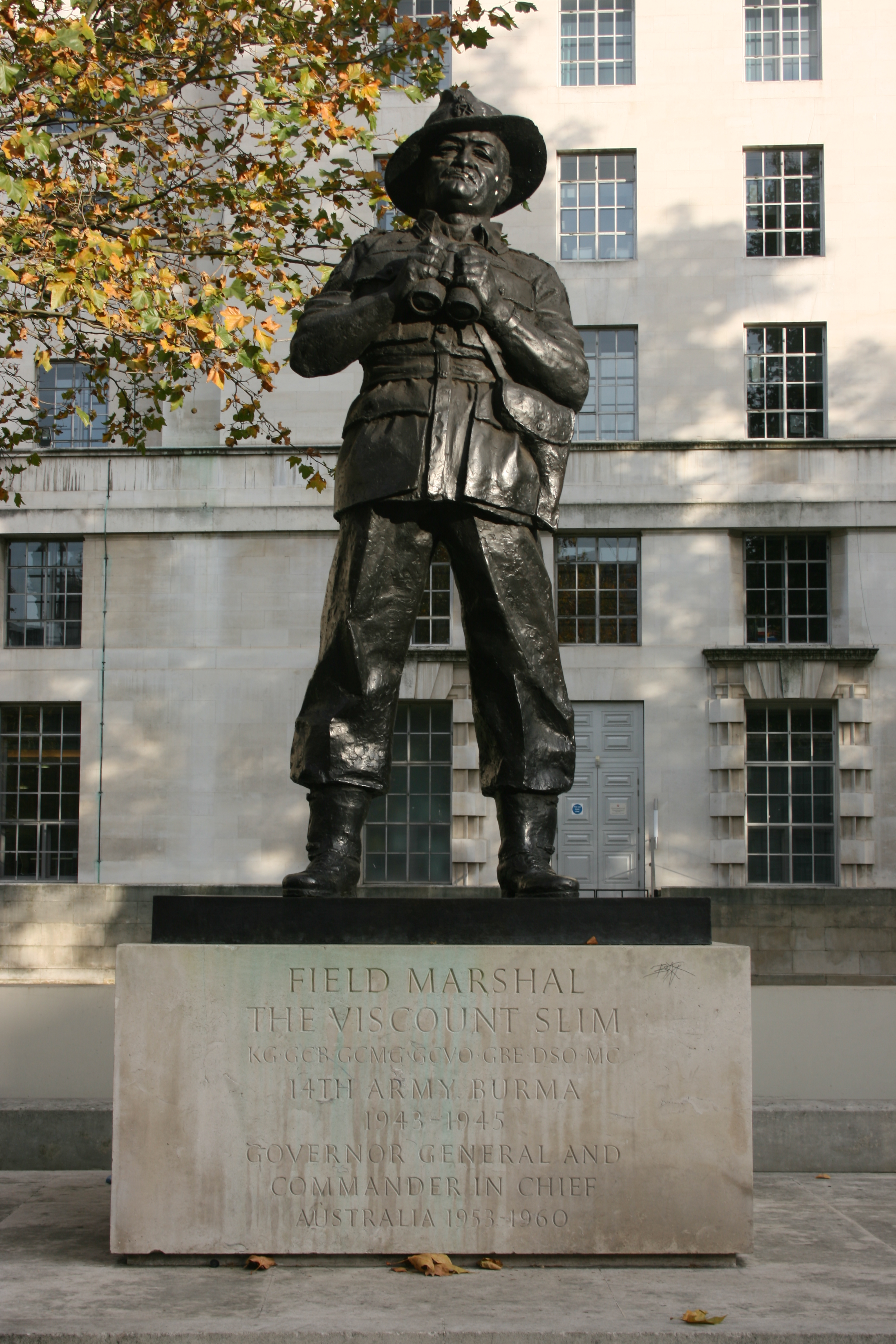 Photograph of statue of Field Marshal The Viscount Slim in Whitehall, London.